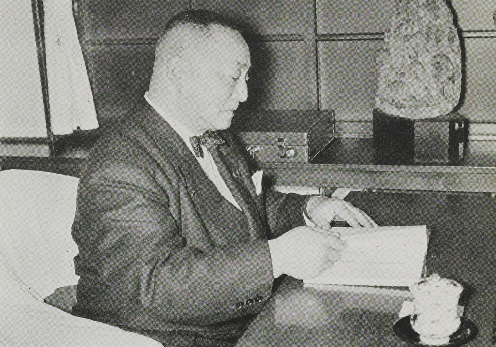 Portrait of Suma Yakichiro (須磨弥吉郎, 1892 – 1970)